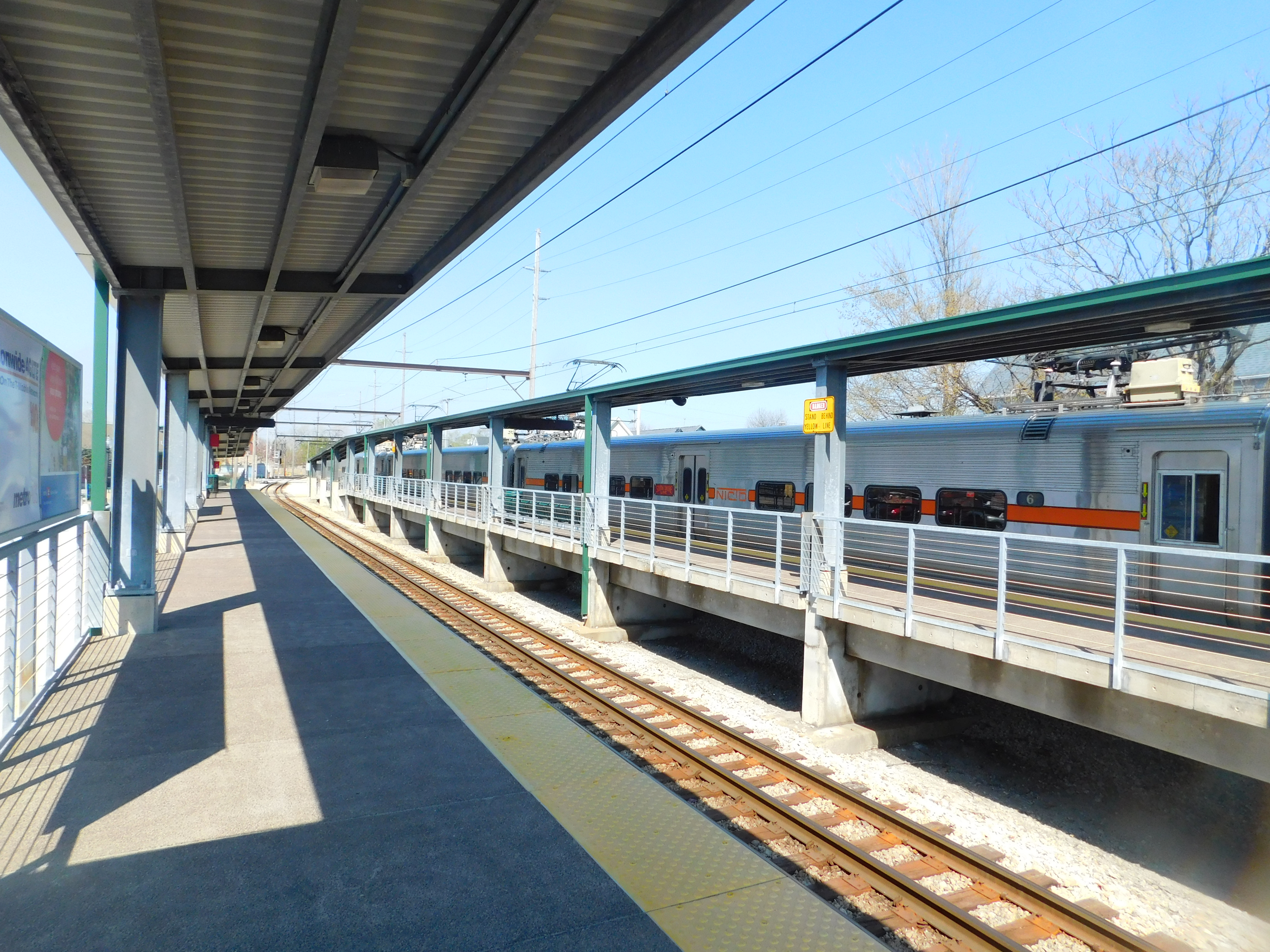 Hammond station for the South Shore Line in April 2016.jpg